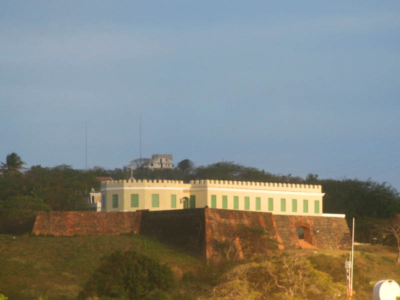 A view from a boat to Fort Conde de Mirasol, Vieques, PR